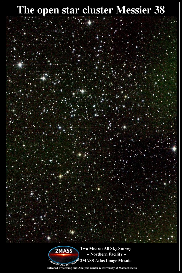 The open star cluster Messier 38